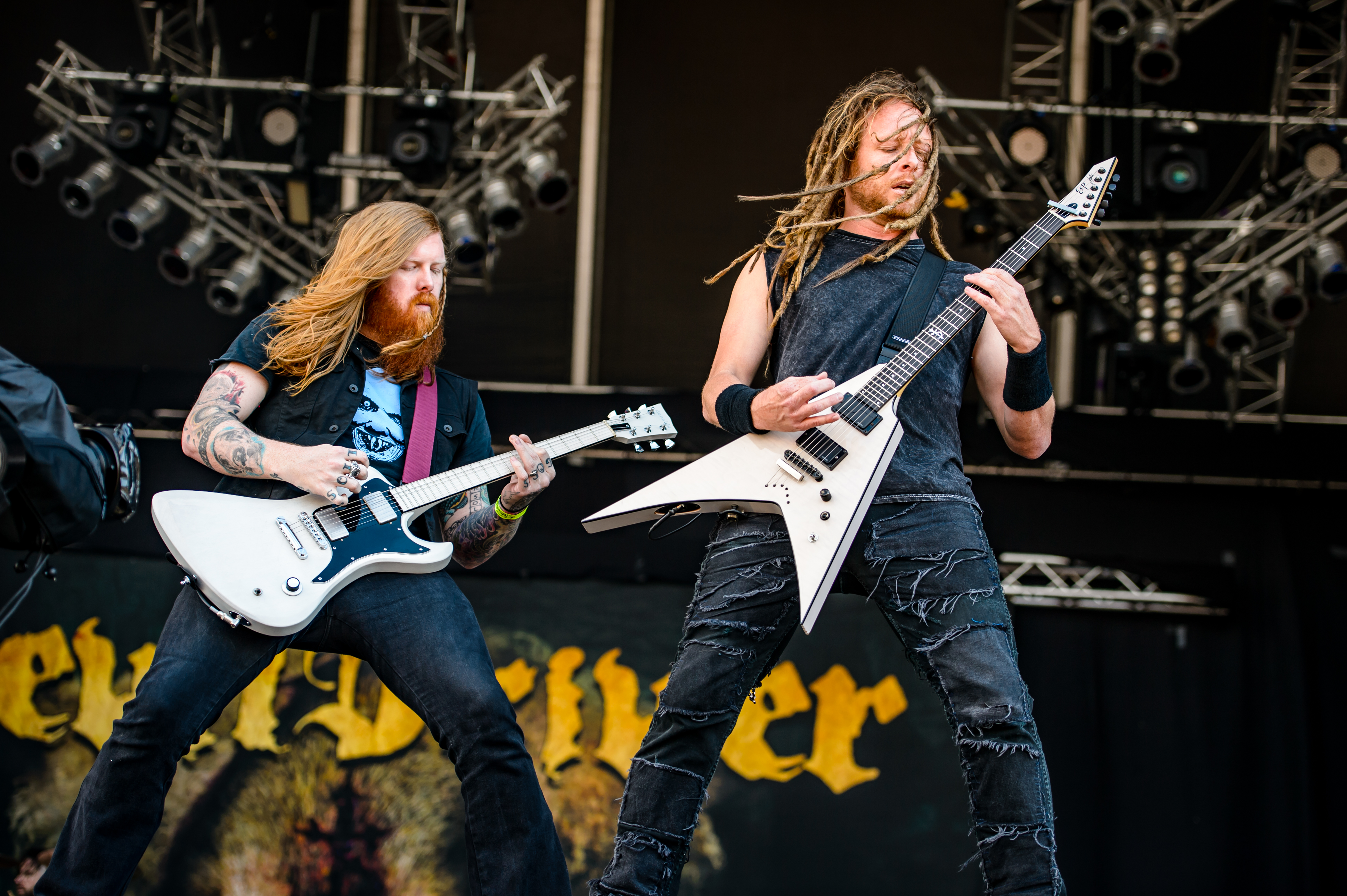 DevilDriver; Wacken Open Air 2016